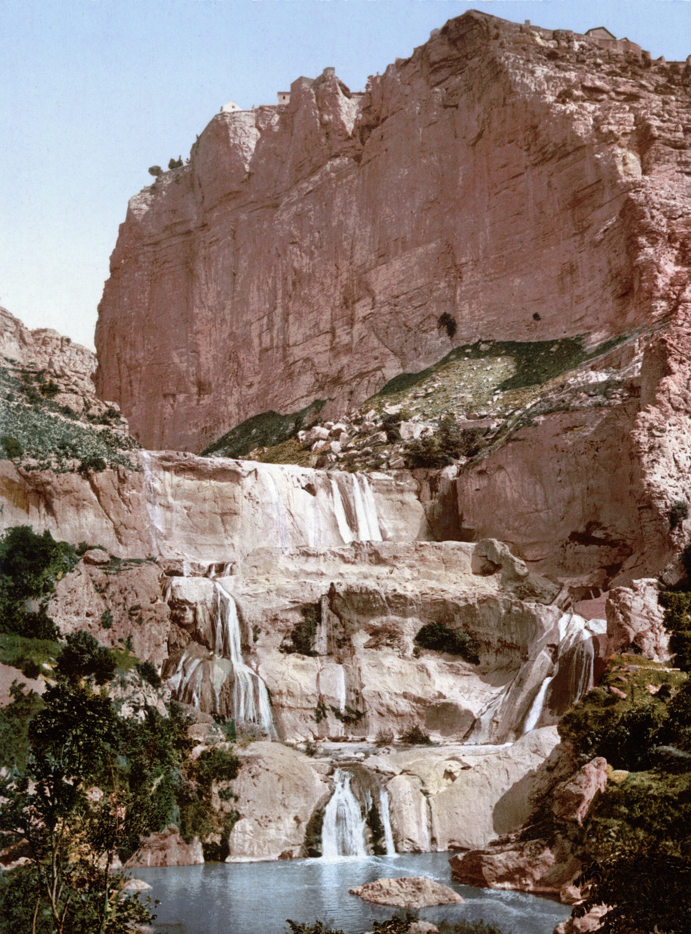 Cascade of Rhummel oued in Constantine (Algeria, 1899).